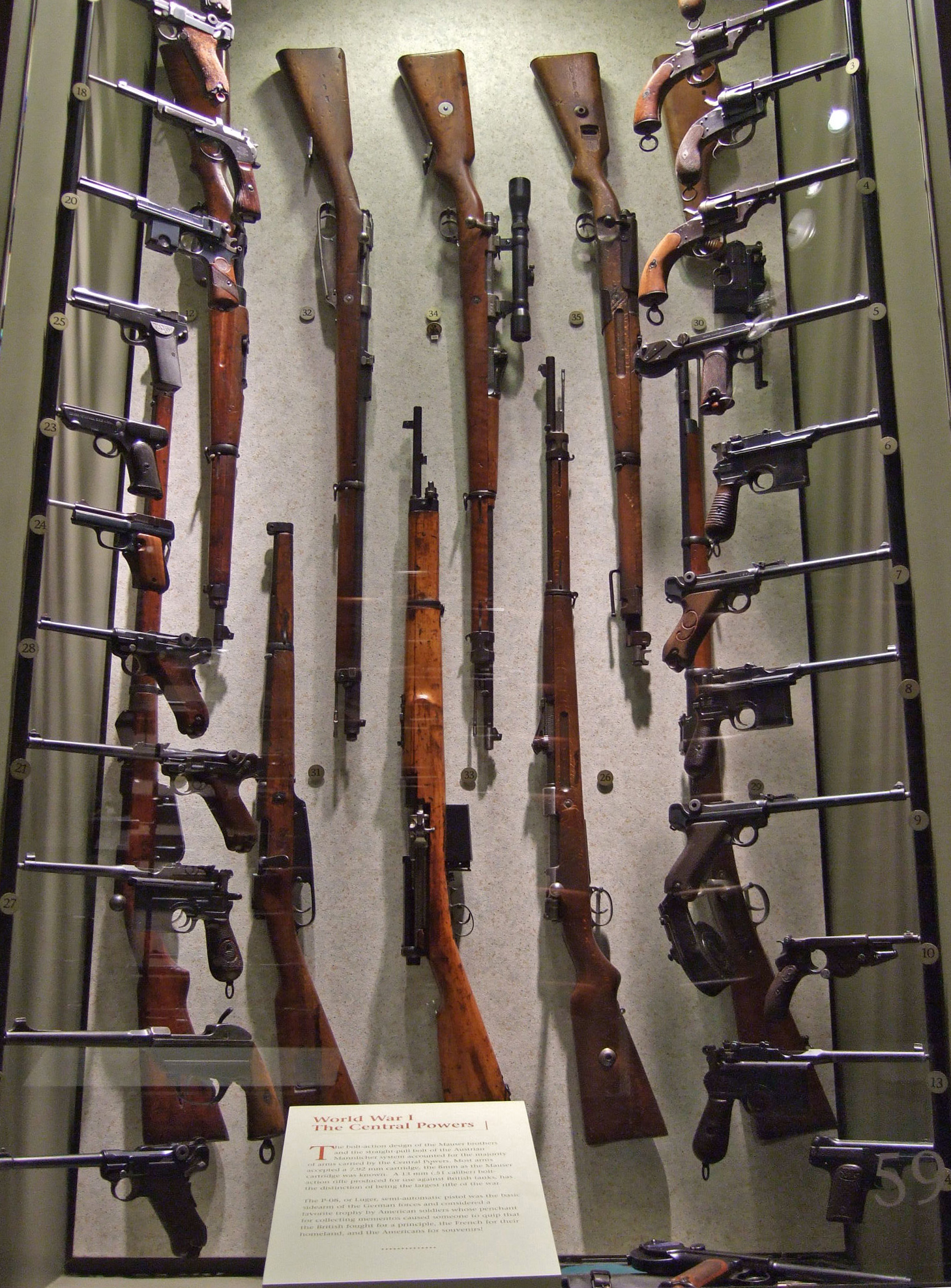 German WW I rifles and carabines